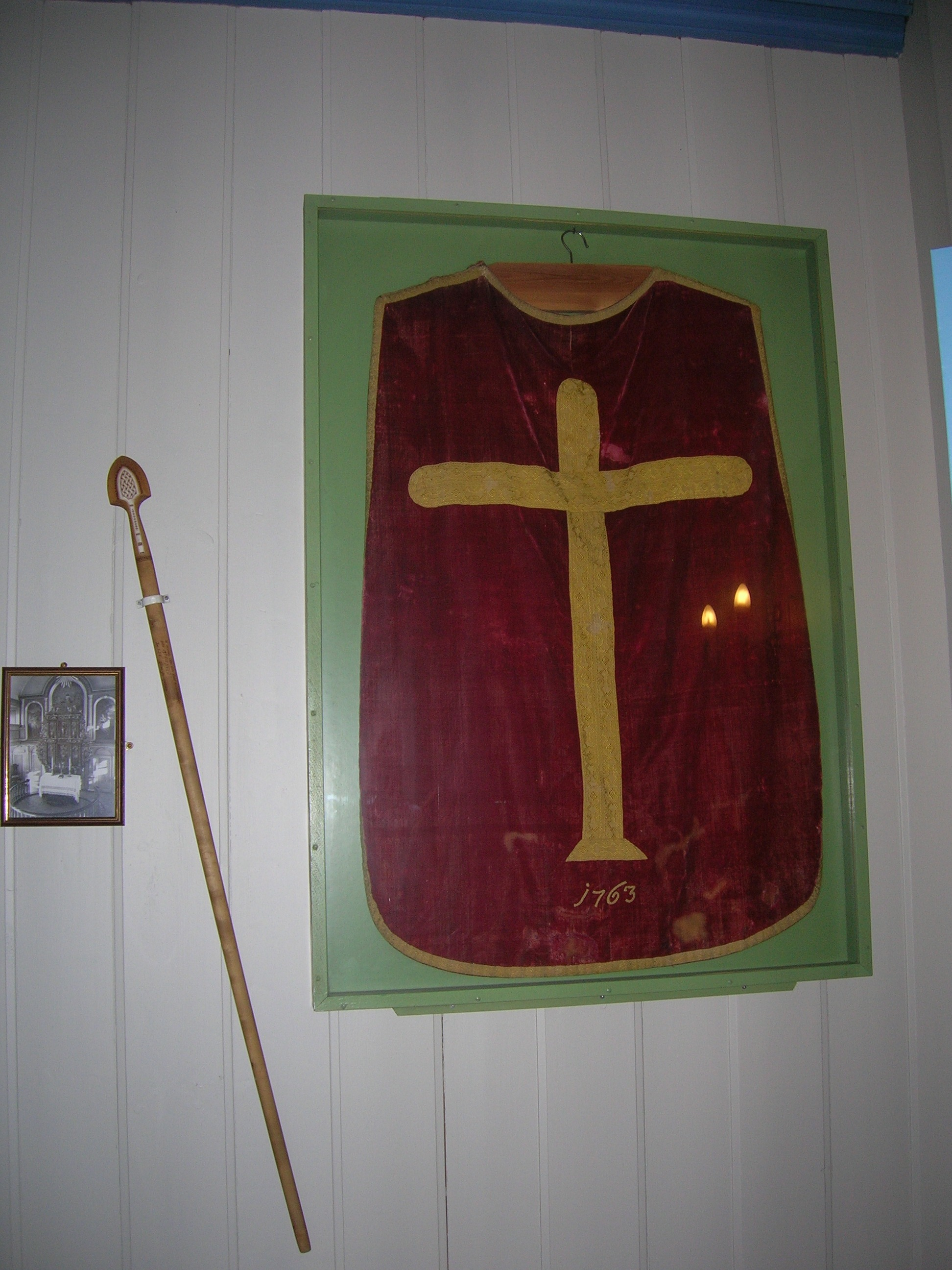 Chausibel from 1763, used in Mo church, Mo i Rana, Rana municipality, Norway. Photo on June 4, 2008 with a Nikon Coolpix 5600 5,1 Megapixel camera.